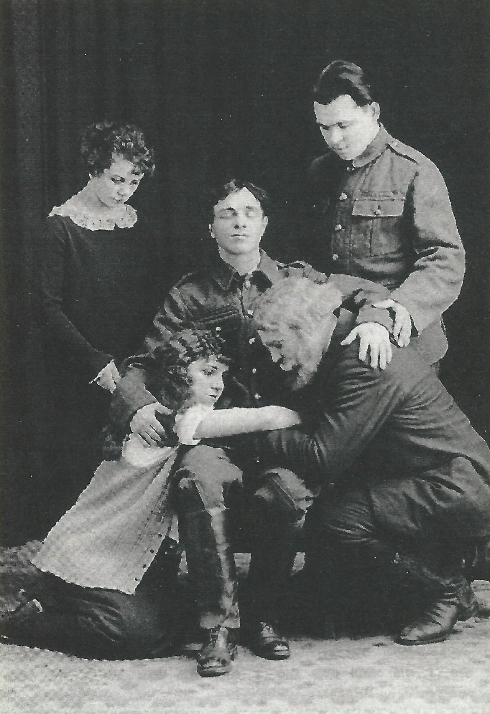 From the play A Family of Brushmakers by Myroslav Irchan, circa 1923